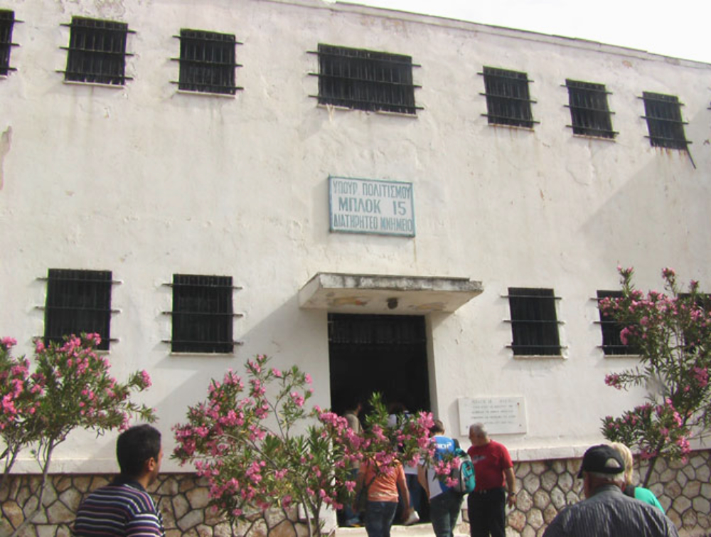 Haidari_concentration_camp_block_15_in_2008. Credit: Courtesy of Arie Darzi to memorialize the Jewish community in Greece.